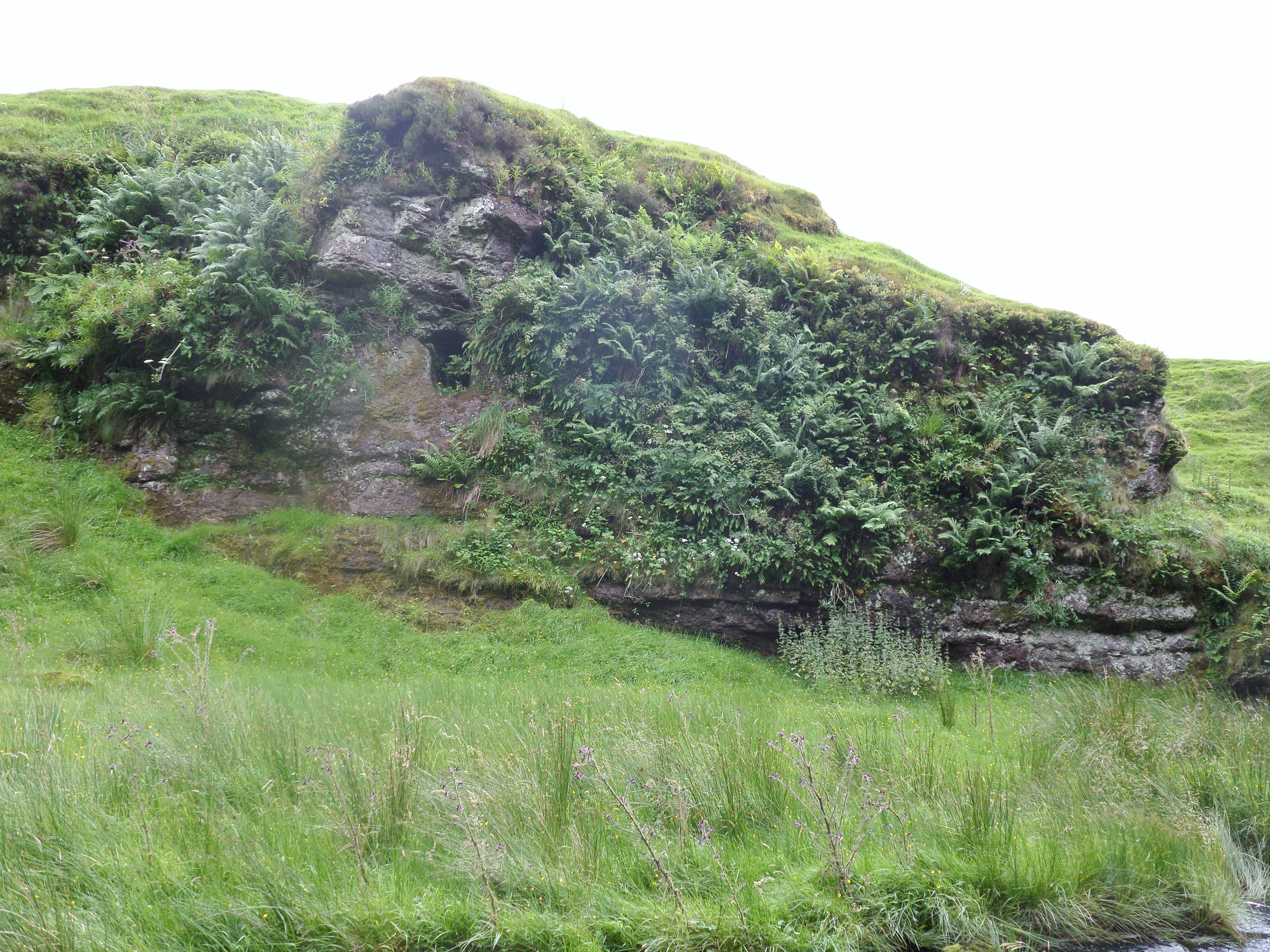 Dunton Cove, Scottish Covenanters 17th century artificial cave, Craufurdland Water, Waterside, Ayrshire.